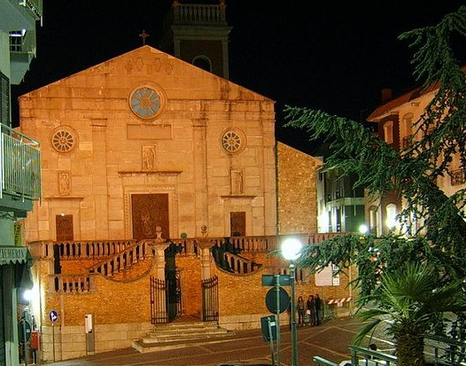 Romanic Cathedral in Ariano Irpino, Italy (10th century)